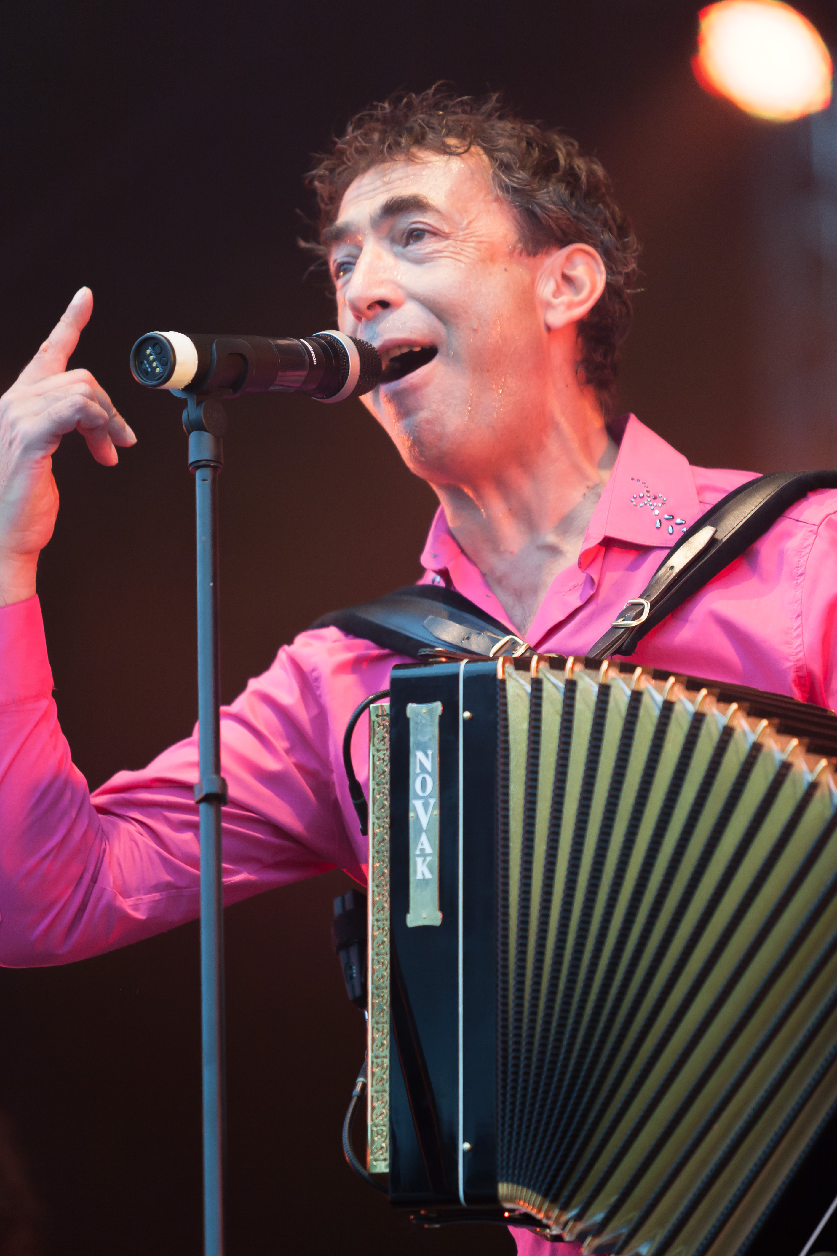 Hubert von Goisern in Neuwied